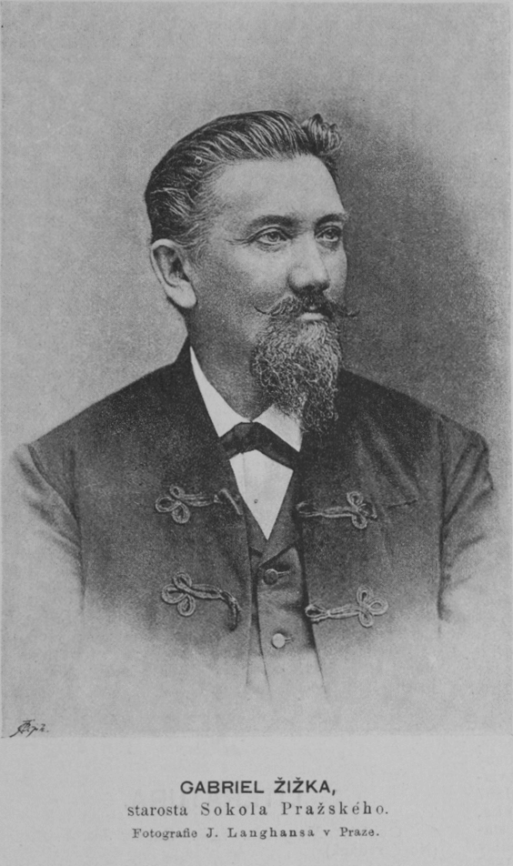 Photo of Gabriel Žižka (1833-1889), Czech stonemason, producer of millstones, organizer of patriotic associations and events.